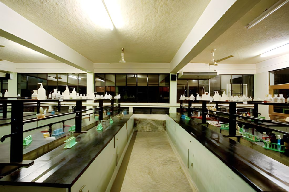 chemistry lab at night